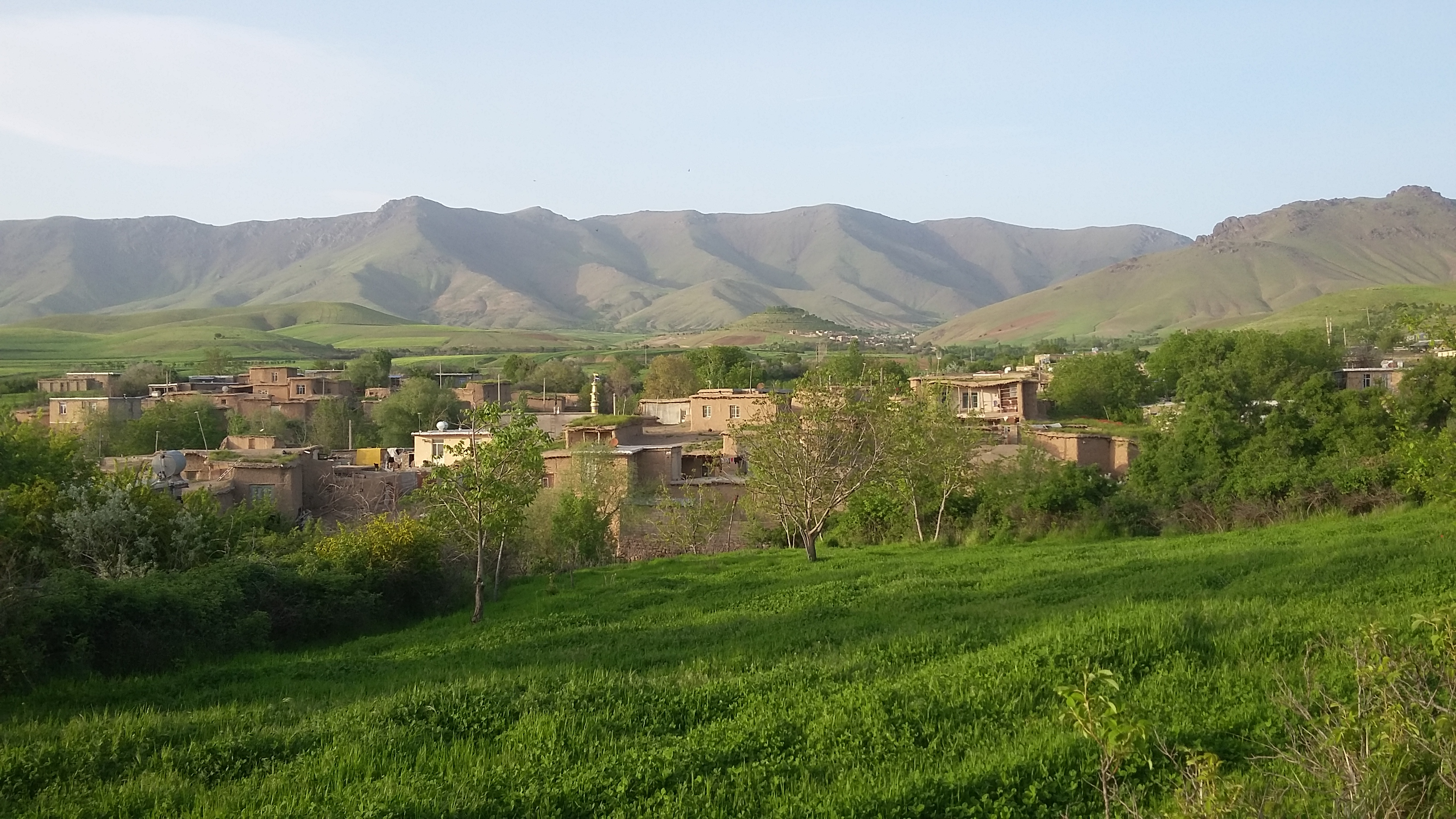 میانرود